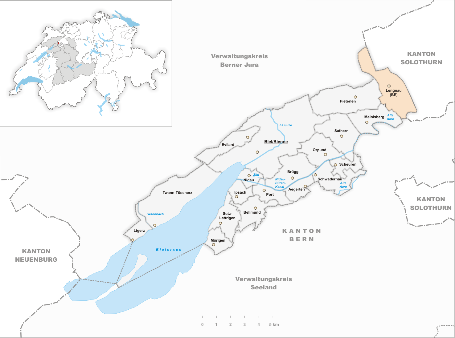 Municipality Lengnau